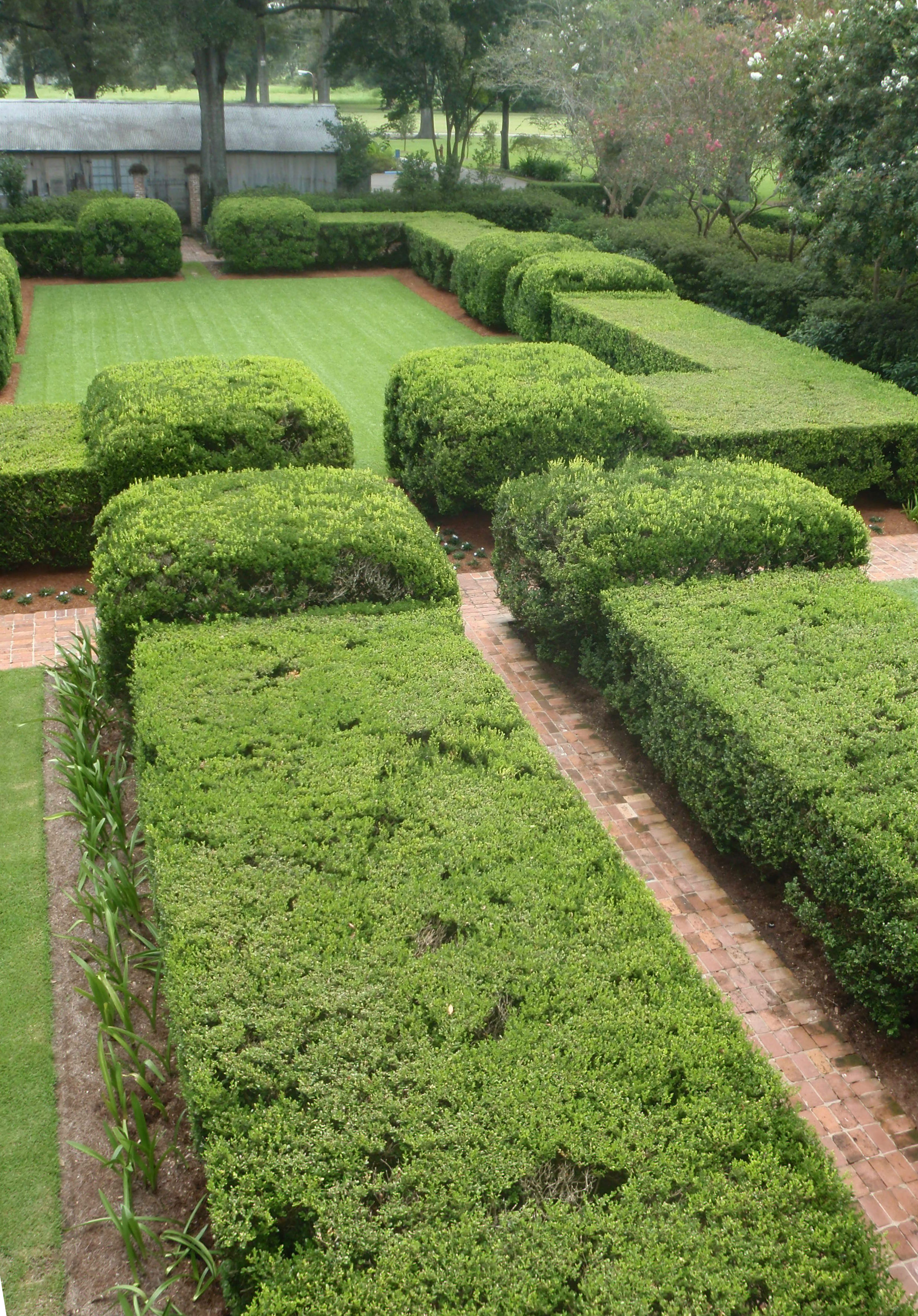 Oak Alley Plantation Back of the house looking toward the kitchen.